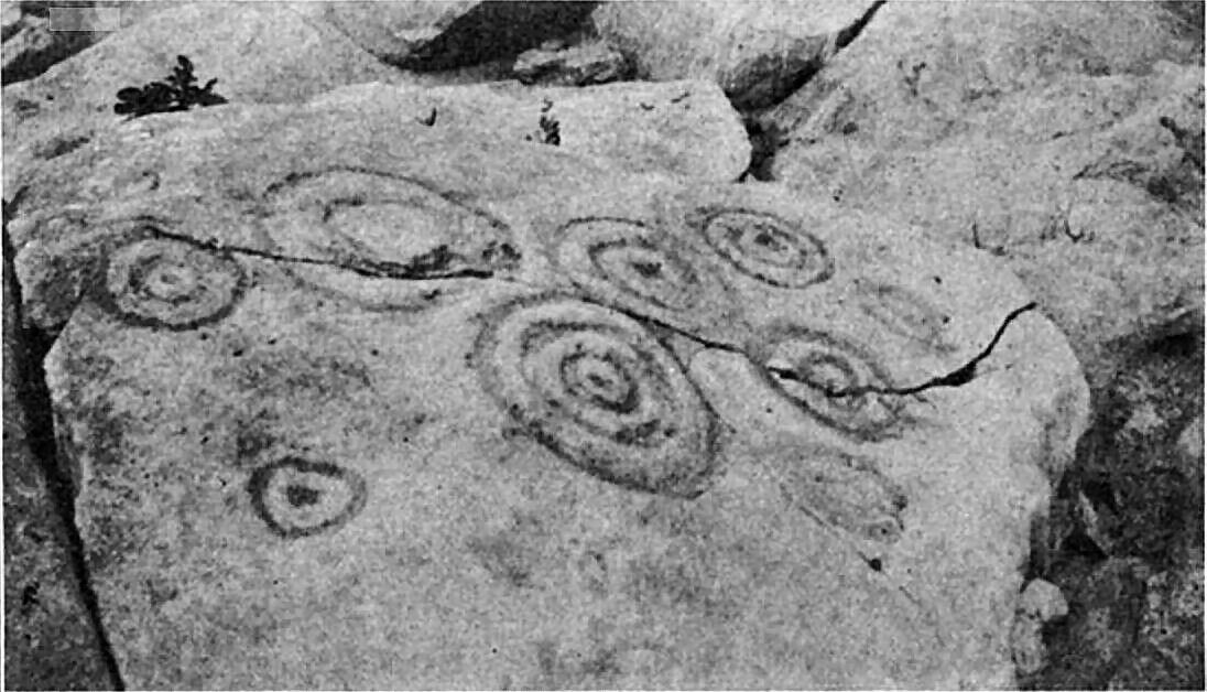 Photograph of petroglyphs near the west bank of the Orinoco River at Caicara, Venezuela.